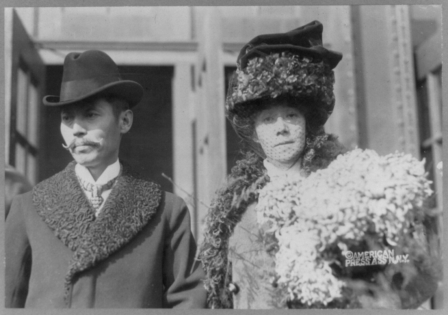 Title: Yukio Ozaki, 1858-1954, head and shoulders portrait, facing left, and wife Yei Theodora (Ozaki) Ozaki. Mayor of Tokyo Abstract/medium: 1 photographic print.